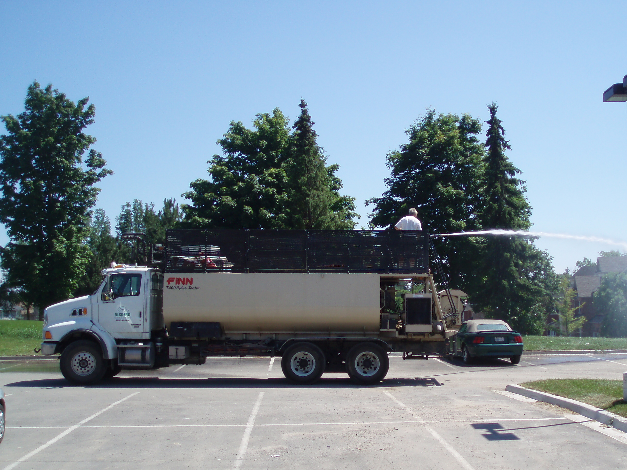 FiNN T400 Hydroseeder